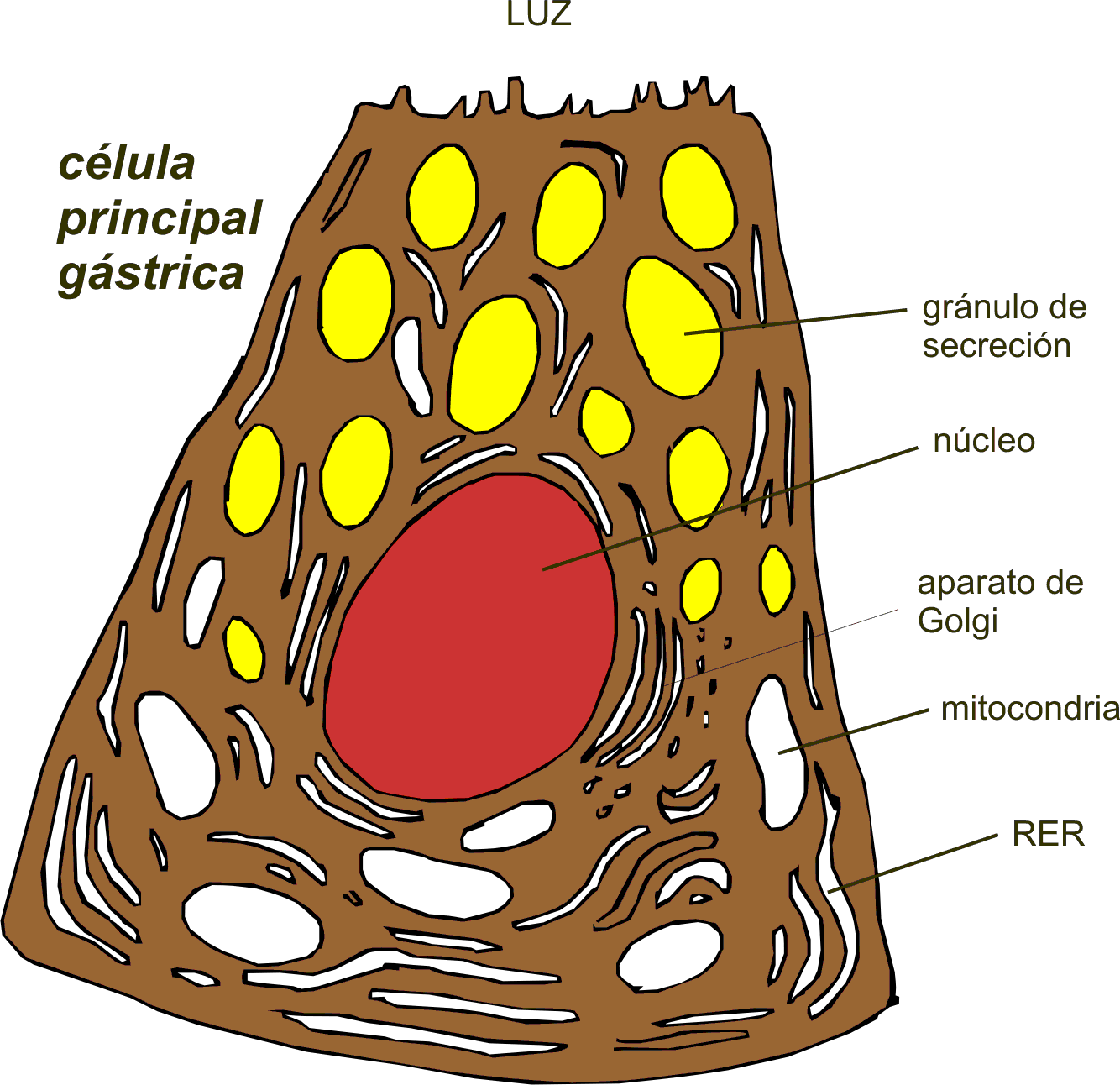 gastric chief cell diagram